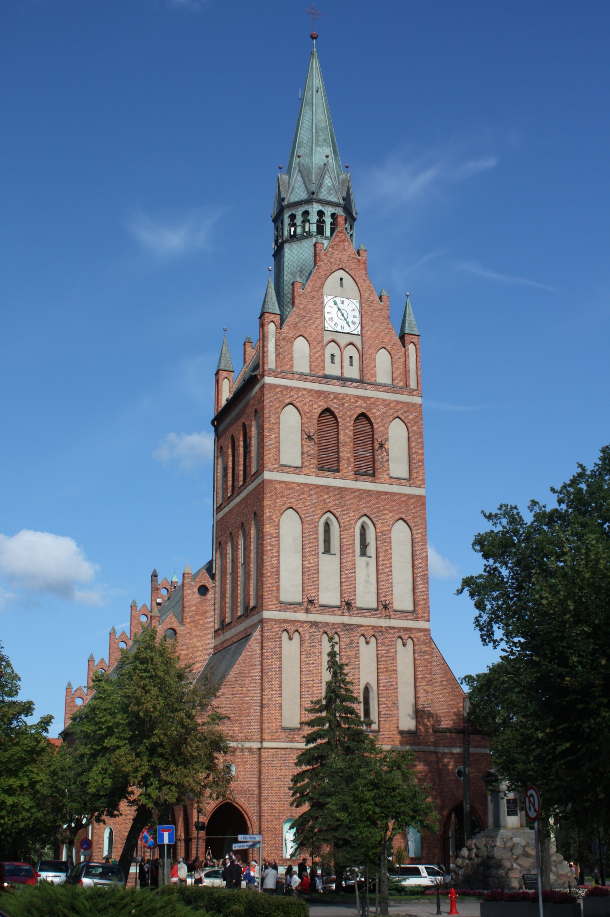 This photo of Warmian-Masurian Voivodeship was taken during Wikiexpedition 2012 set up by Wikimedia Polska Association. You can see all photographs in category Wikiekspedycja 2012. The making of this document was supported by Wikimedia Polska.